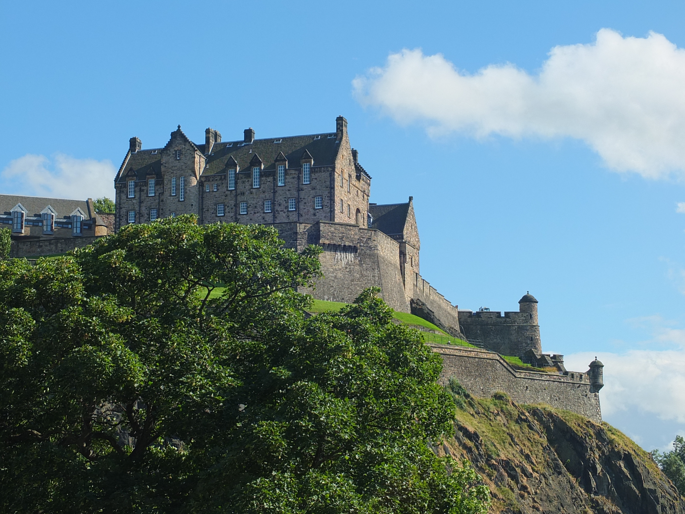 Edinburgh Castle as seen from Princes Street Gardens.